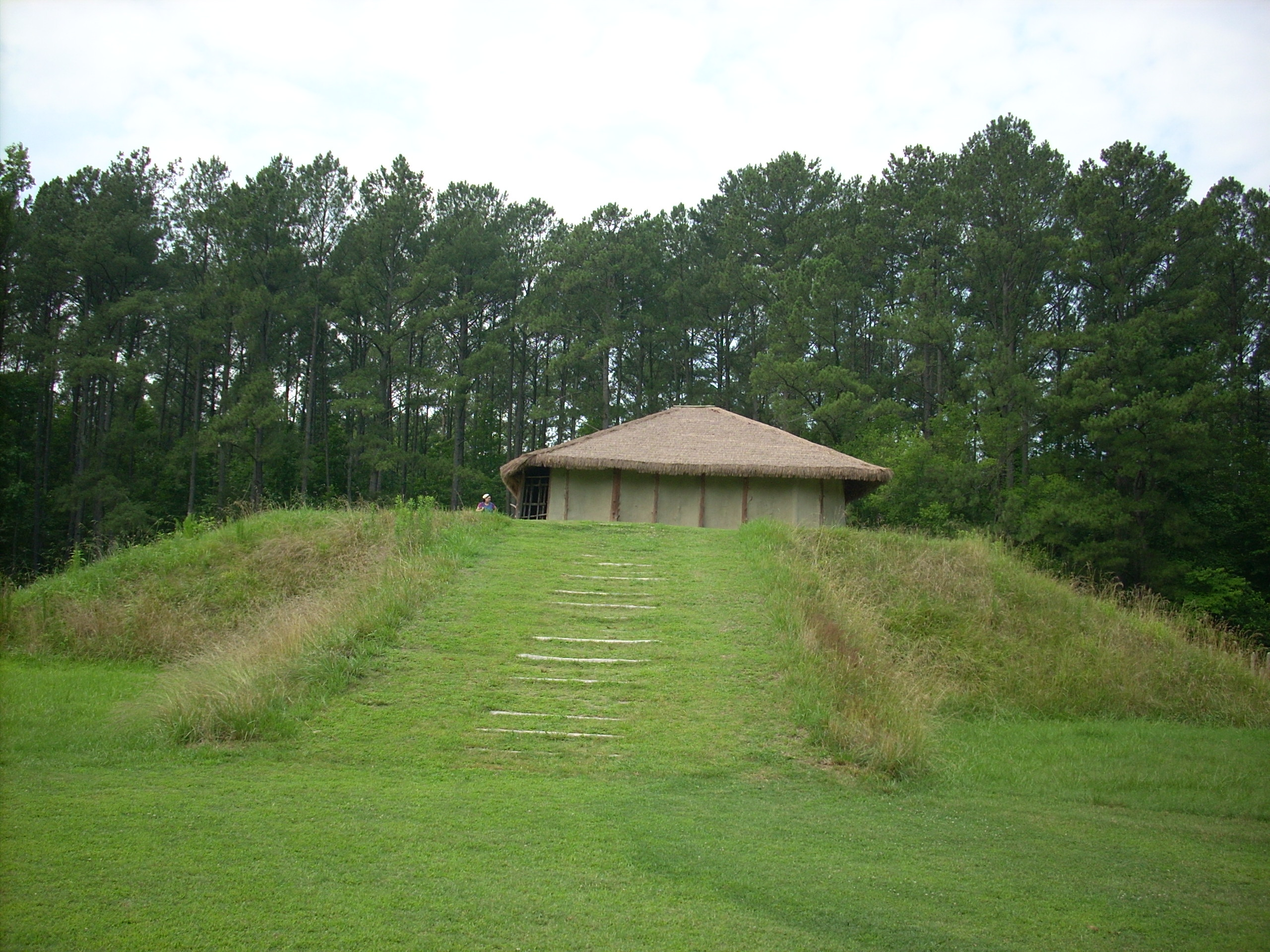 A view of Town Creek Indian Mound in Montgomery County, North Carolina